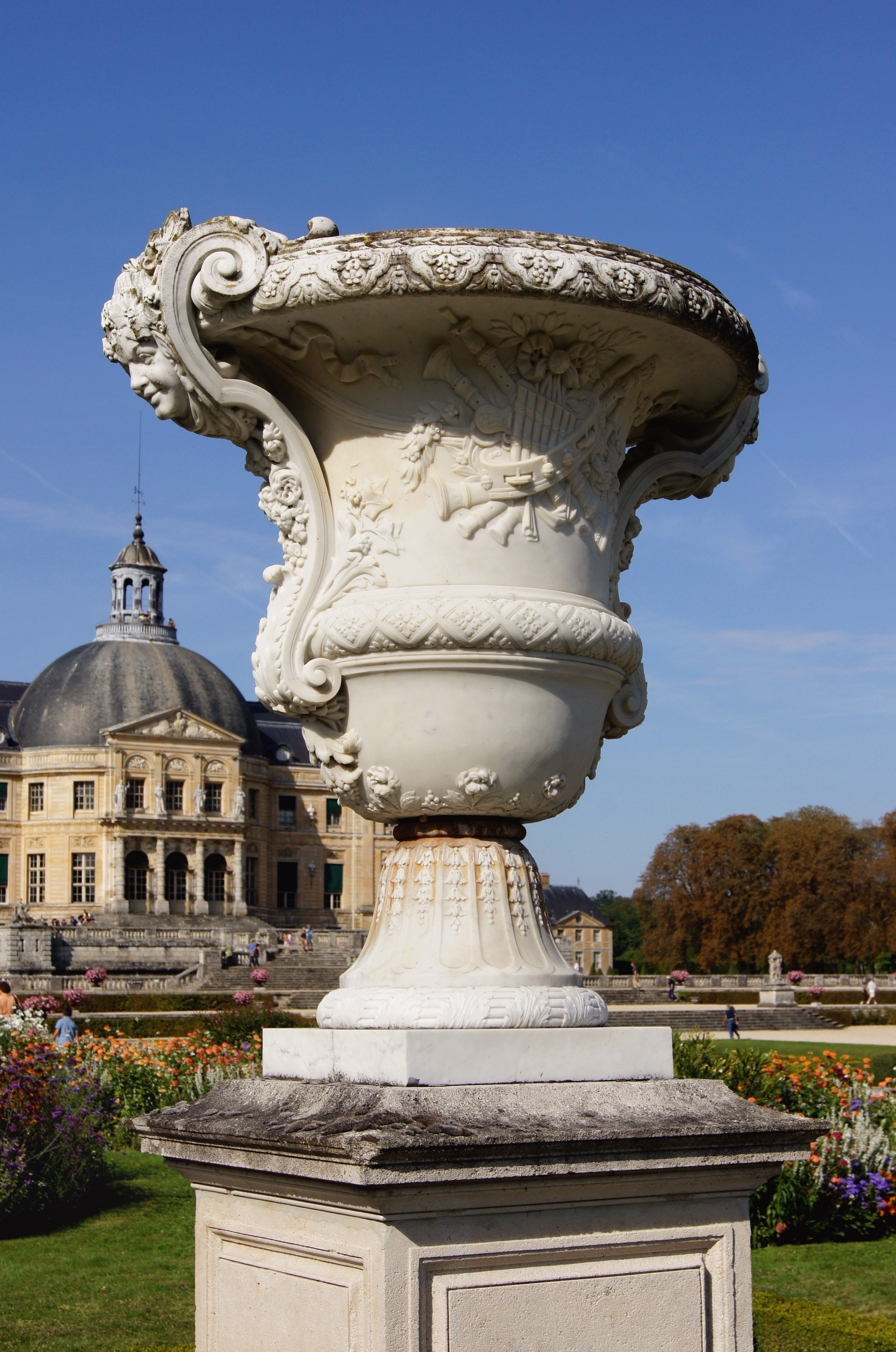 a garden vase in Vaux-le-Vicomte, France.